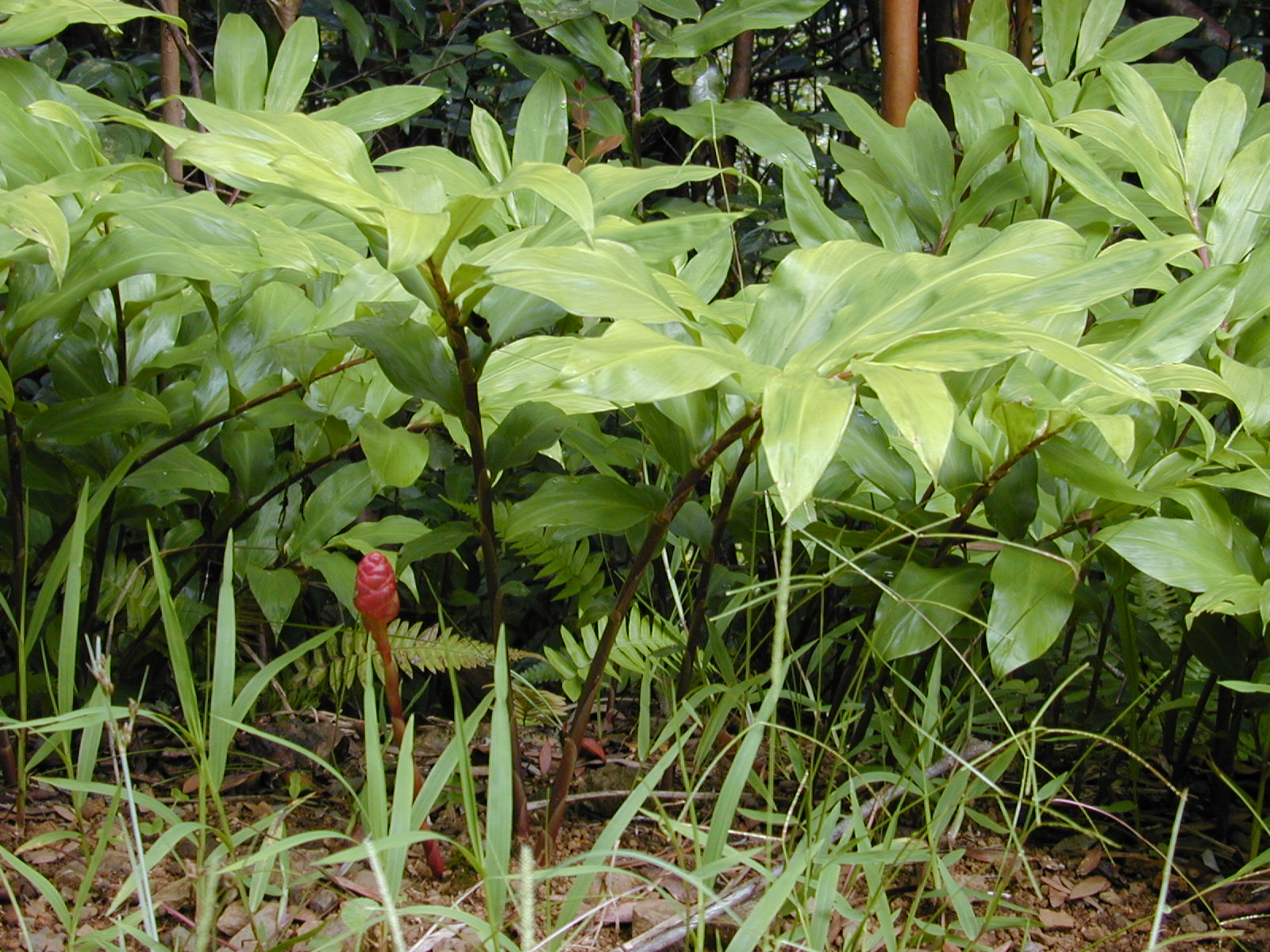 Zingiber zerumbet (habit). Location: Maui, Wahinepee